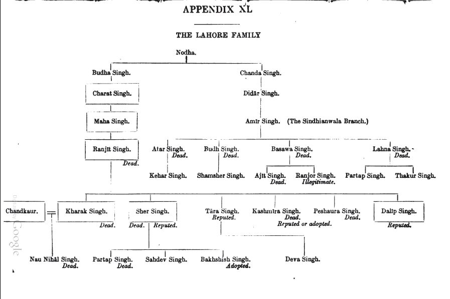 All sons, father, grandfather, grand grand father including in chart